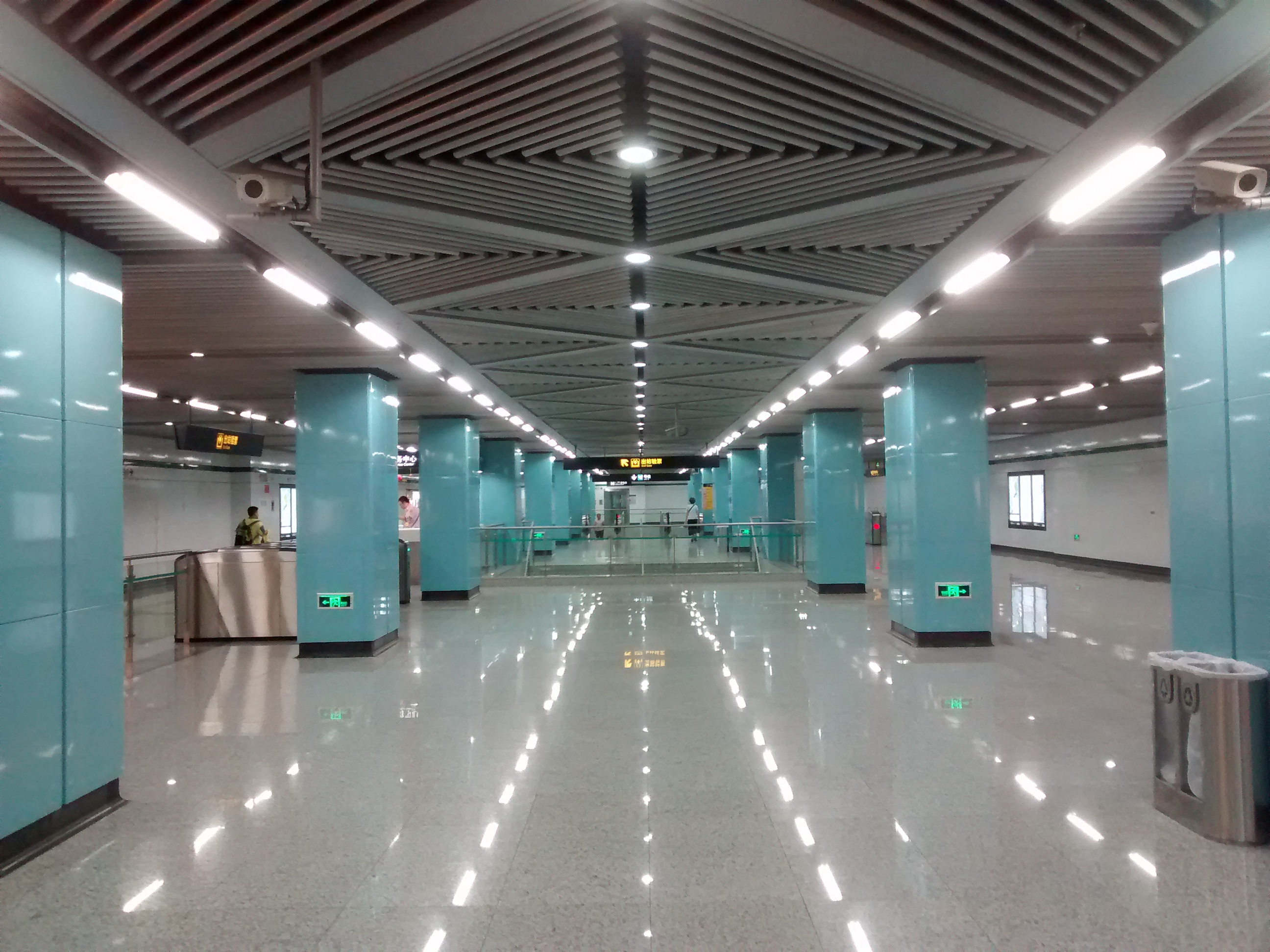 Jiangpu Park Station, Shanghai.